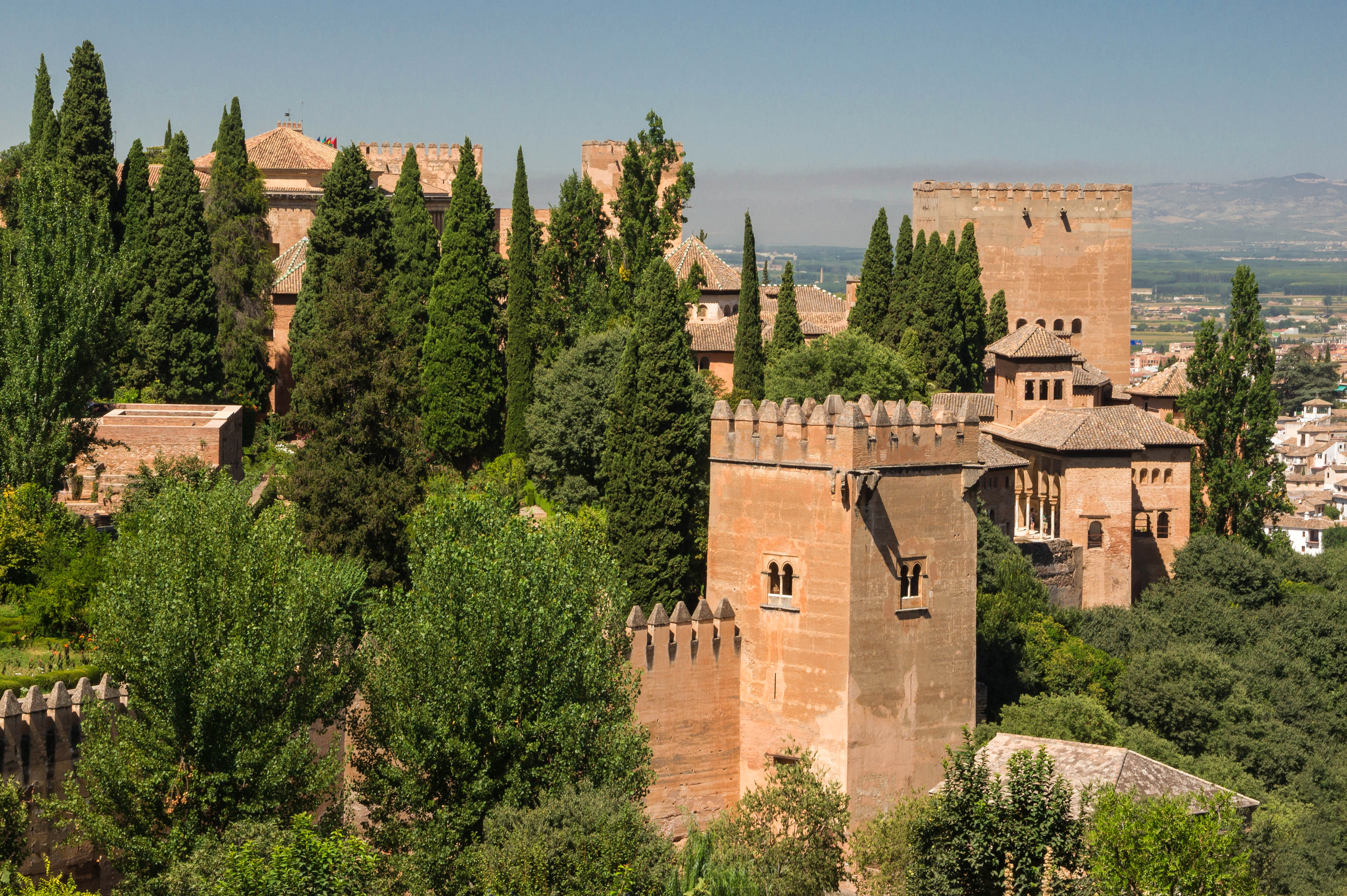 Walls, towers and trees of the Alhambra, from Generalife. Granada, Spain.